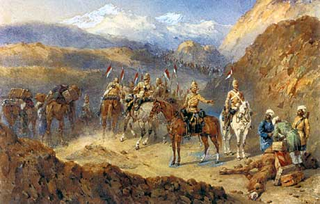 9th Lancers on the Line of March from Kabul to Kandahar, by Caton Woodville (1856–1927)